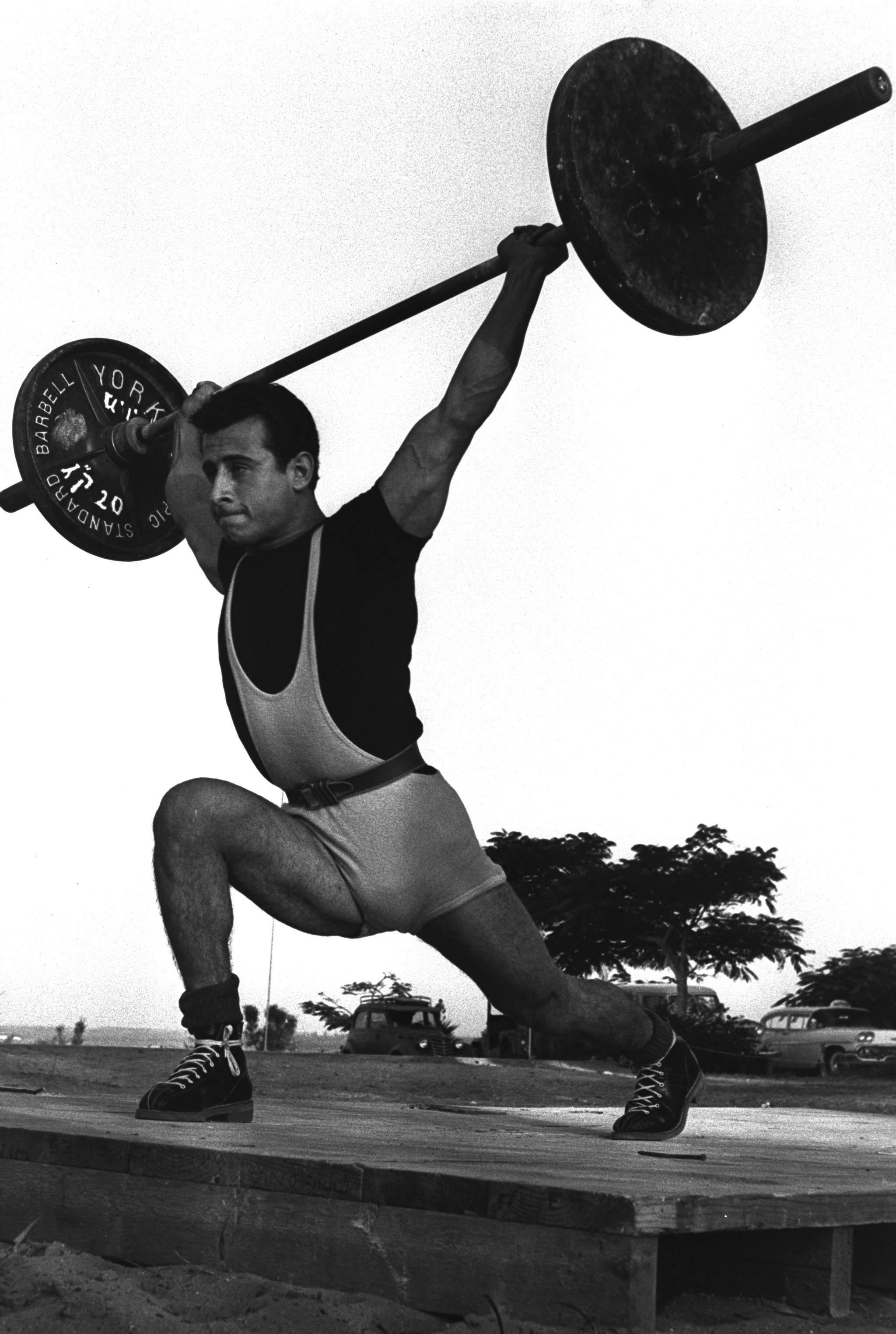 Edouardo Maron, Israeli Olympic wightlifter.